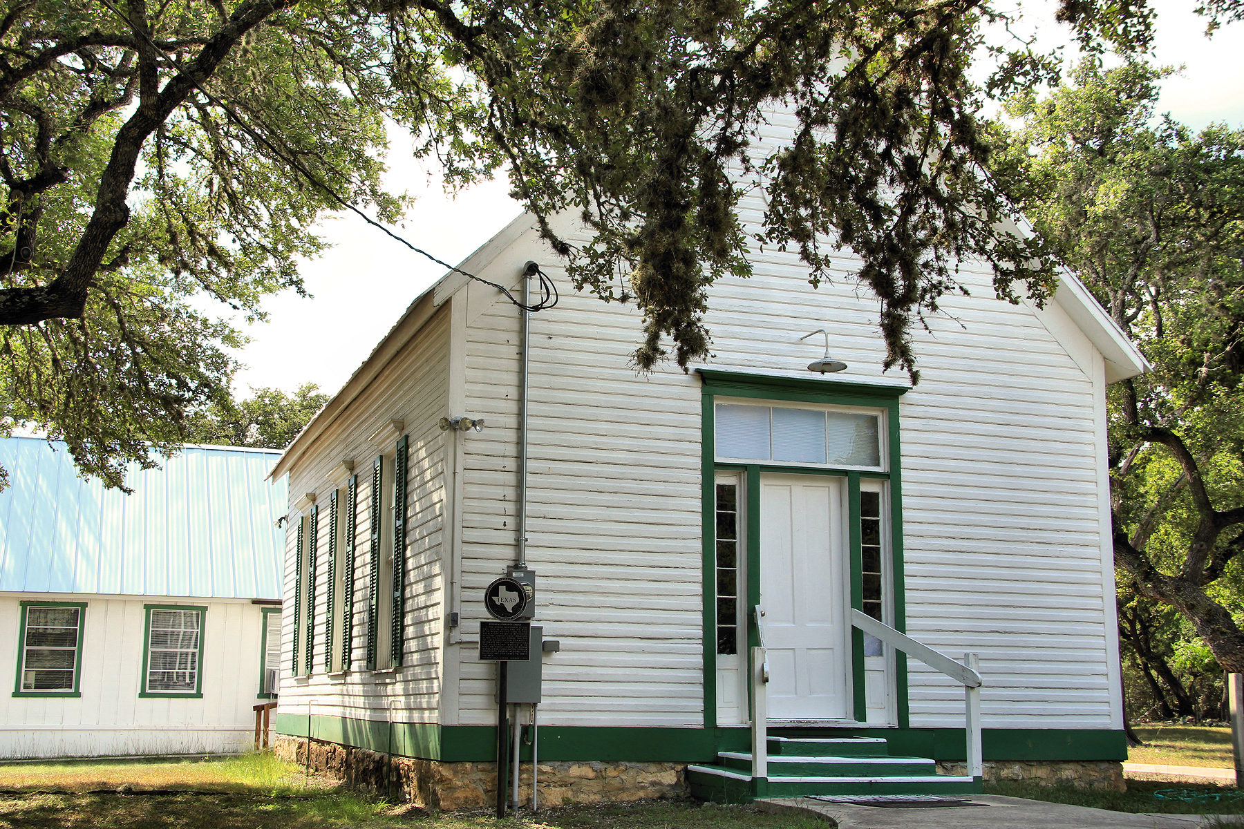 Kendalia Community Church in Kendalia, Texas, United States. The church was designated a Recorded Texas Historic Landmark in 1979.